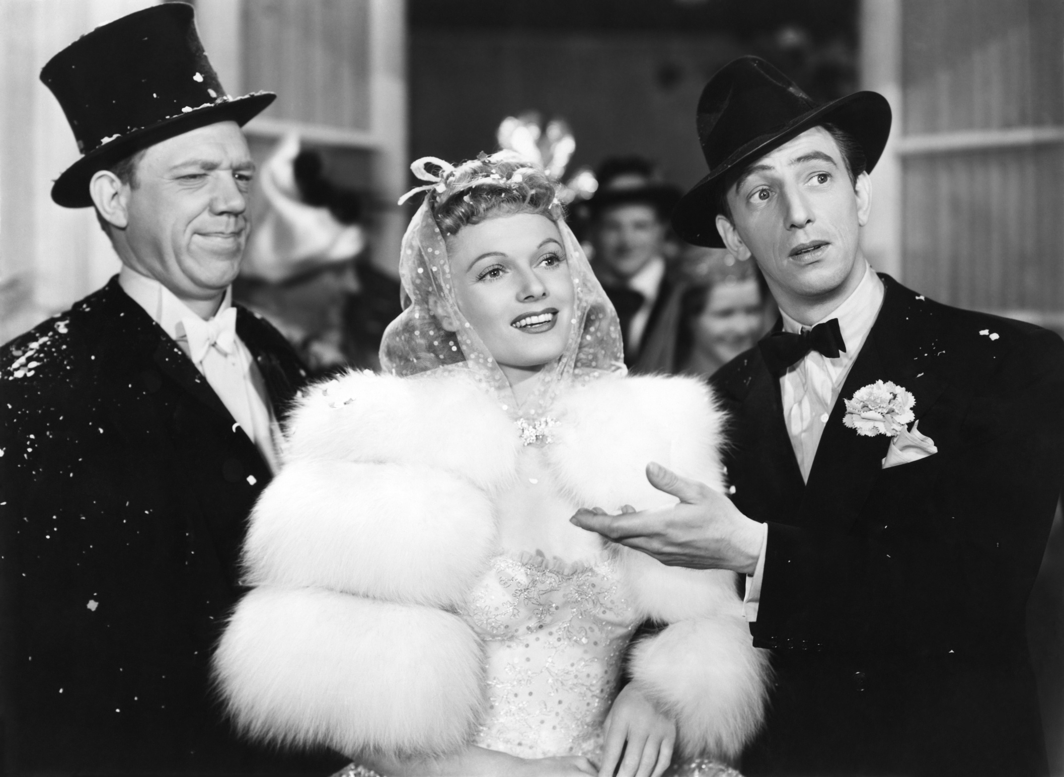 L. to R. : Paul Hartman, Anna Neagle & Ray Bolger in Sunny - publicity still